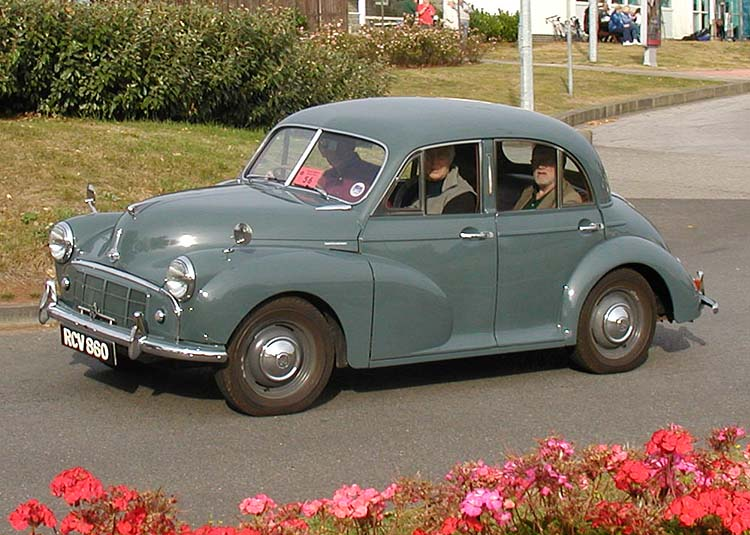 1953 Morris Minor Series II, at a Classics Rally, Bristol, England, in October 2003. Picture taken by Adrian Pingstone and released to the public domain. Category:Classic vehicle images